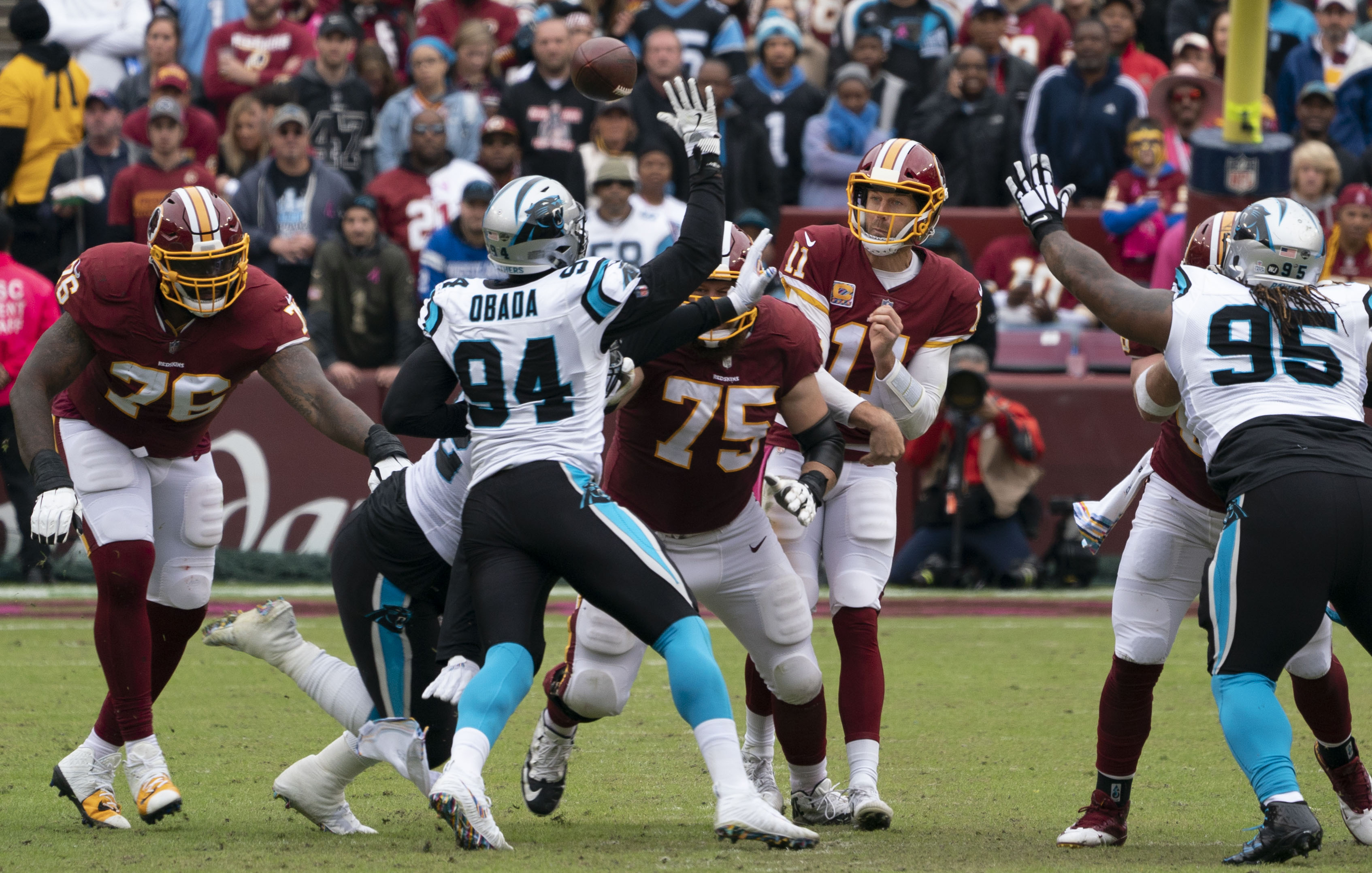 Panthers at Redskins 10/14/18